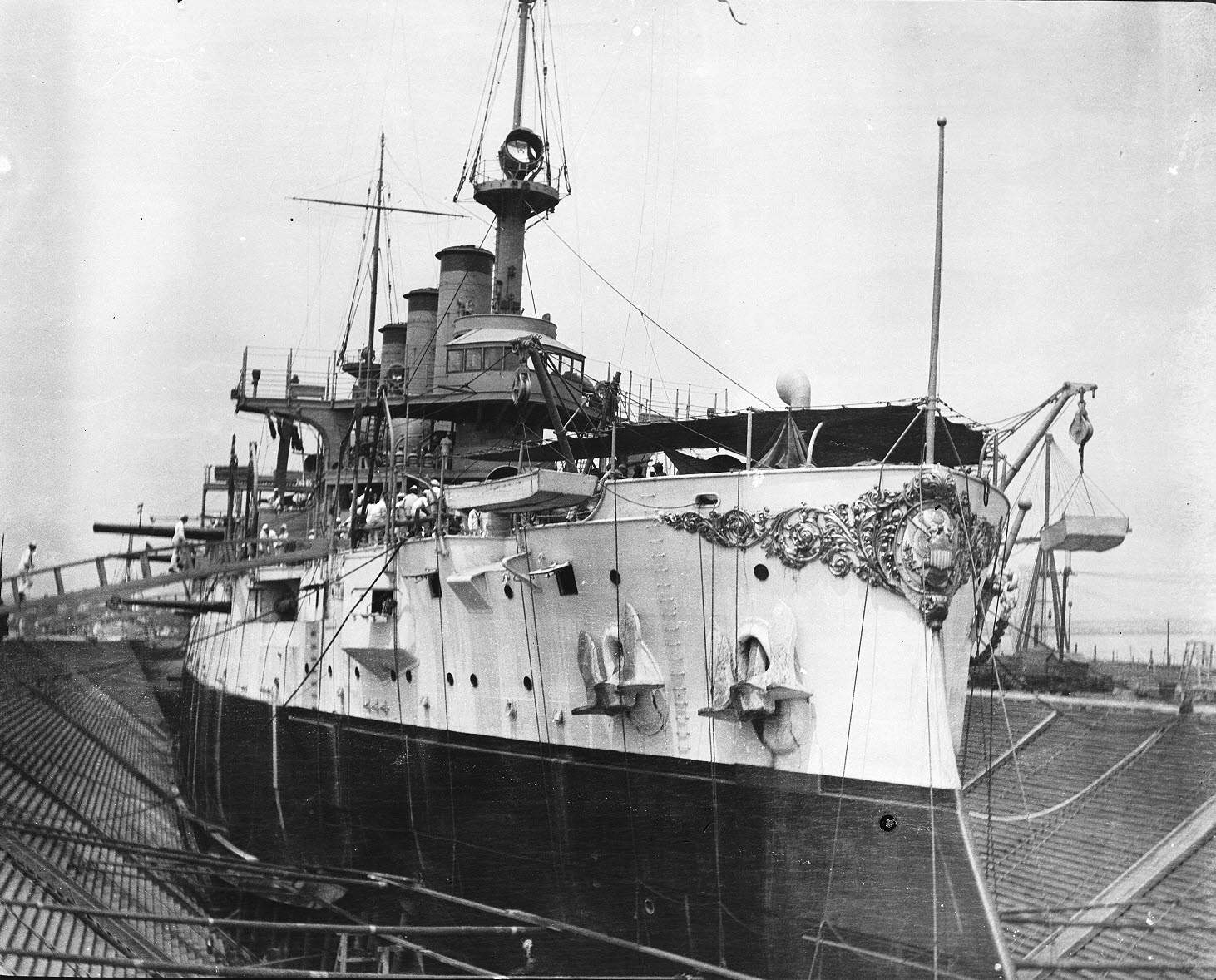 USS Connecticut in dry dock, Brooklyn Navy Shipyard Spring 1909. Per email correspondence, this image was taken by the uploader's great-grandfather. Although the photo does not appear in the book, Albertson (2001), p. 66 says that Connecticut was overhauled sometime after 8 March 1909; it was on this date that she "cleared Hampton Roads for the New York Naval Yard". This image was presumably taken during that time in drydock.